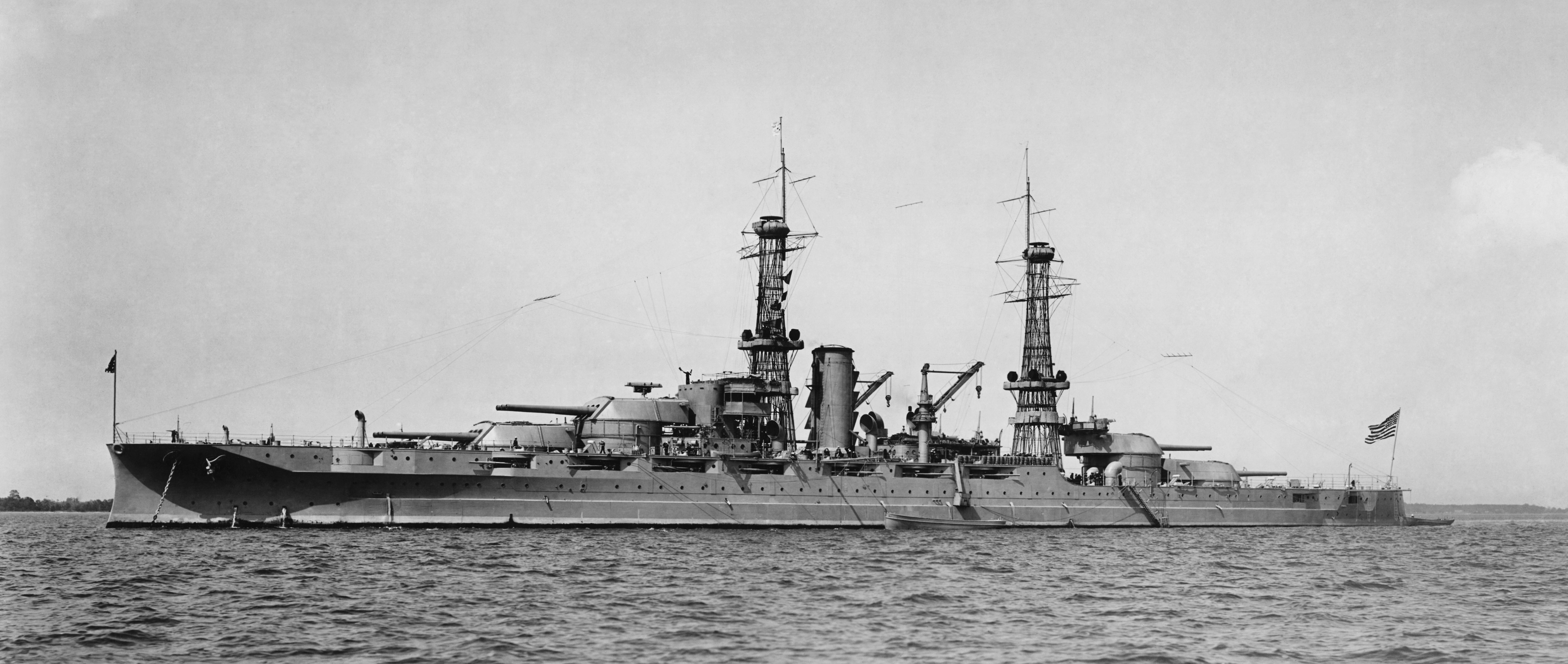 Arizona (BB39) port bow, before being modernized at Norfolk Naval Shipyard between May 1929 and January 1930